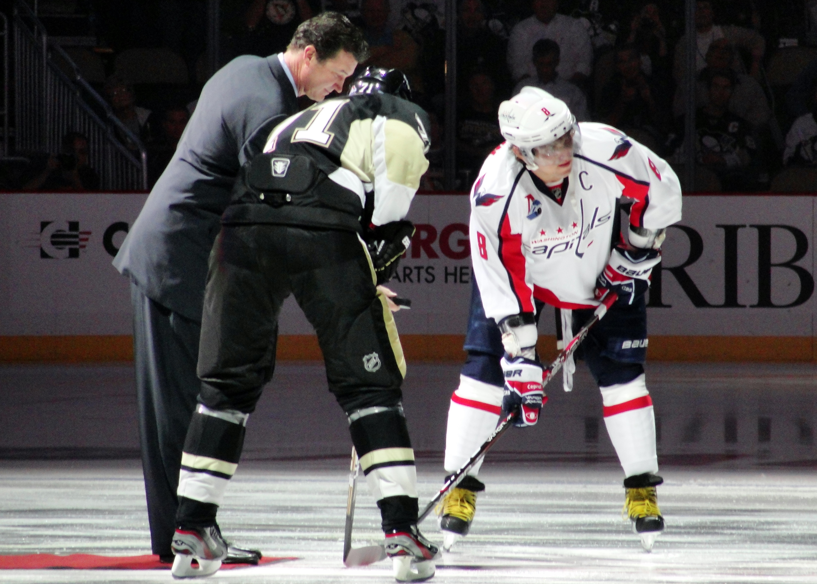 The 13 October 2011 game between the Pittsburgh Penguins and Washington Capitals was dedicated to Lokomotiv Yaroslavl. The teams wore commemorative Lokomotiv patches. All jerseys were autographed by the players and auctioned to raise funds for the families of those who died in the crash.